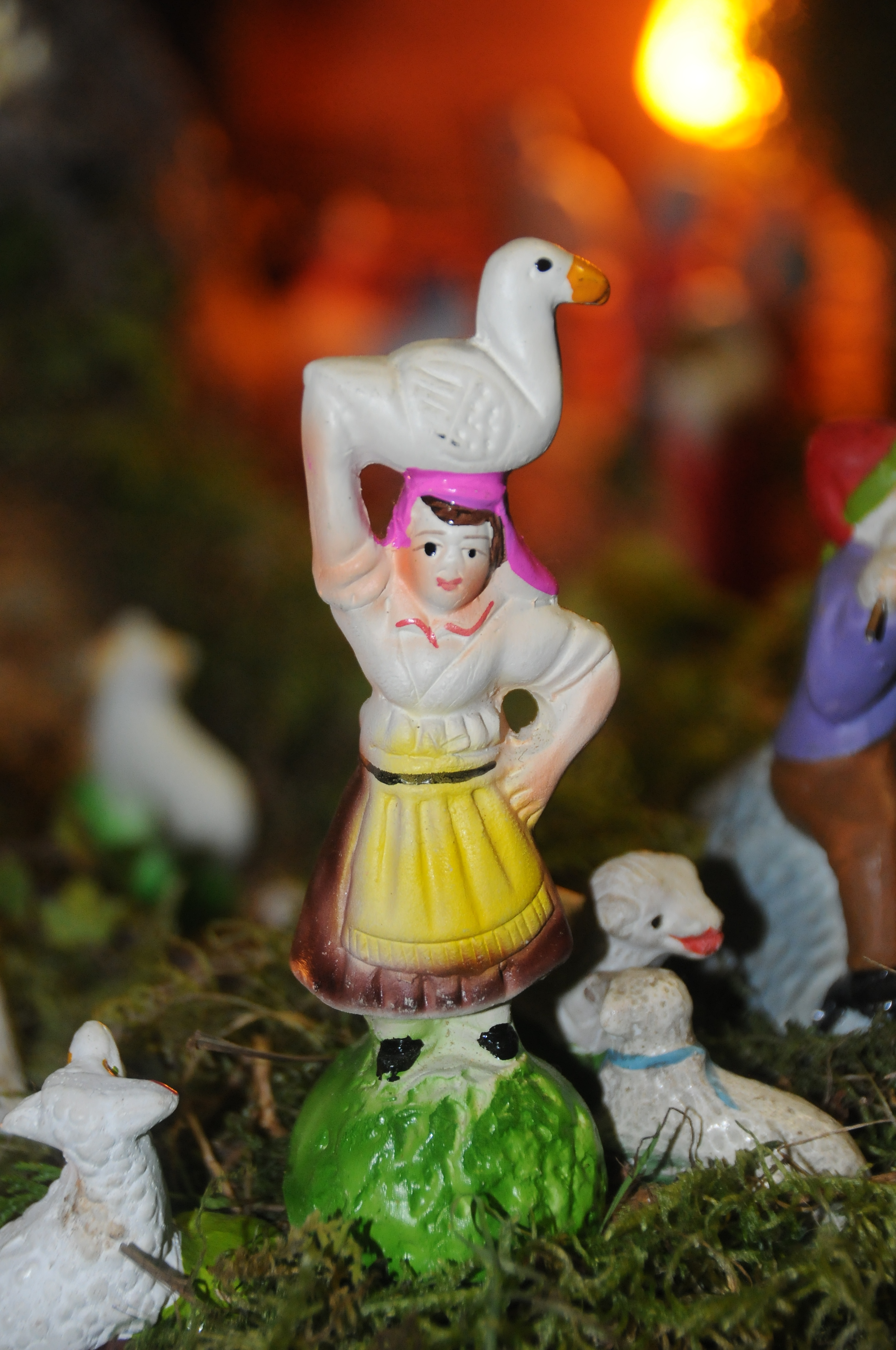 Traditional Nativity scene in Portugal